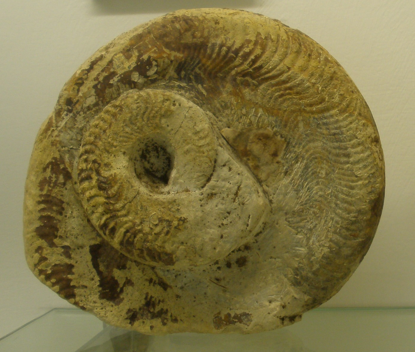 Harpoceras serpentinus photographed in the Museo di Storia Naturale di Verona